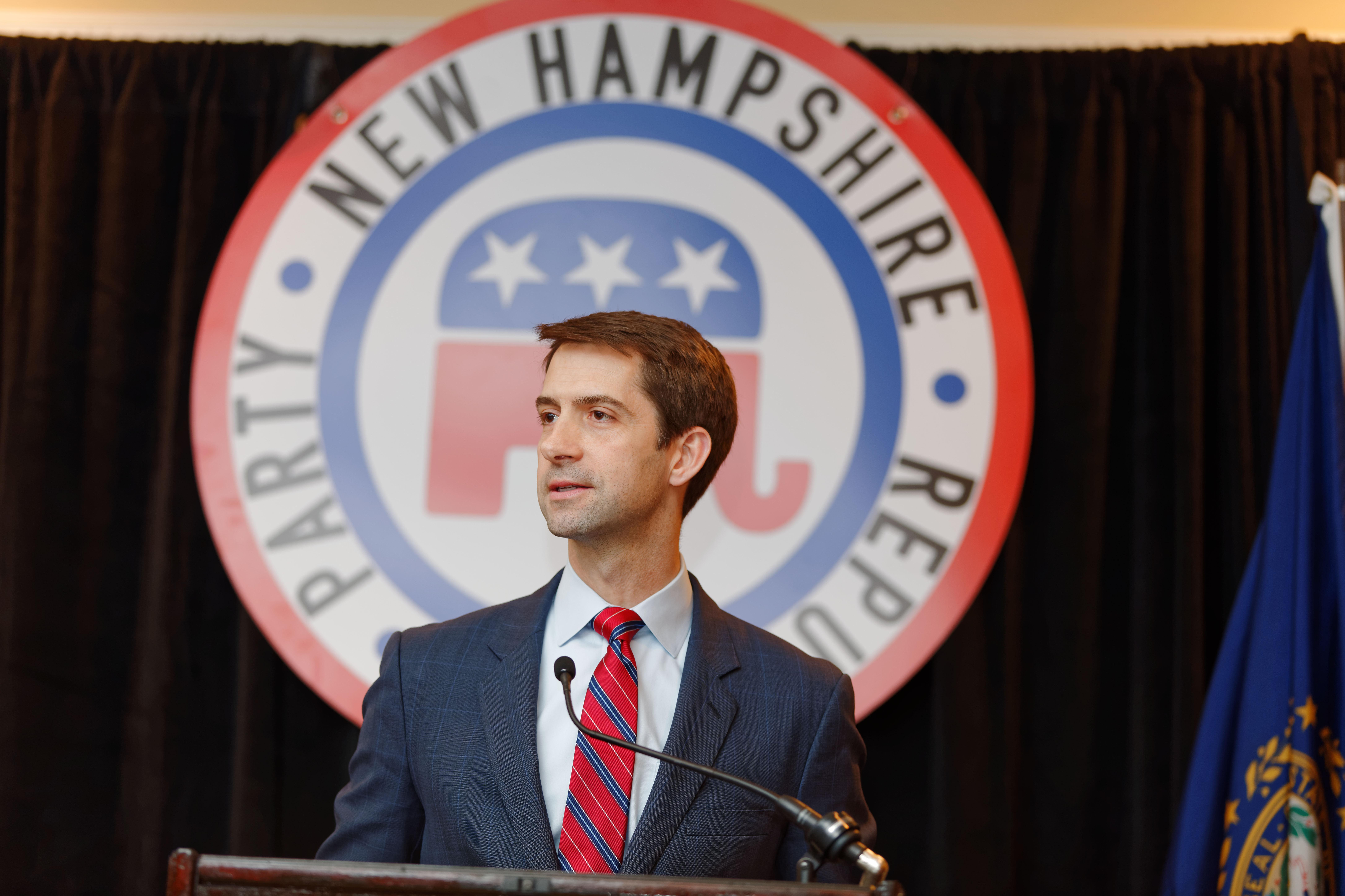 Thomas Bryant "Tom" Cotton (born May 13, 1977) is an American politician who is the junior United States Senator from Arkansas. A member of the Republican Party, Cotton has served in the Senate since January 3, 2015. In August 2013, Cotton announced his intentions to run for the United States Senate in a challenge against two-term Democratic Senator Mark Pryor. Cotton won in an unopposed Republican primary and prevailed in the general election, obtaining 56% of the vote to Pryor's 39%. At 38, he is currently the youngest U.S. Senator. Photos taken on January 23rd 2016 at First In The Nation Townhall, New Hampshire Republican Committee, Radisson Hotel, 11 Tara Blvd, Nashua, NH 03602